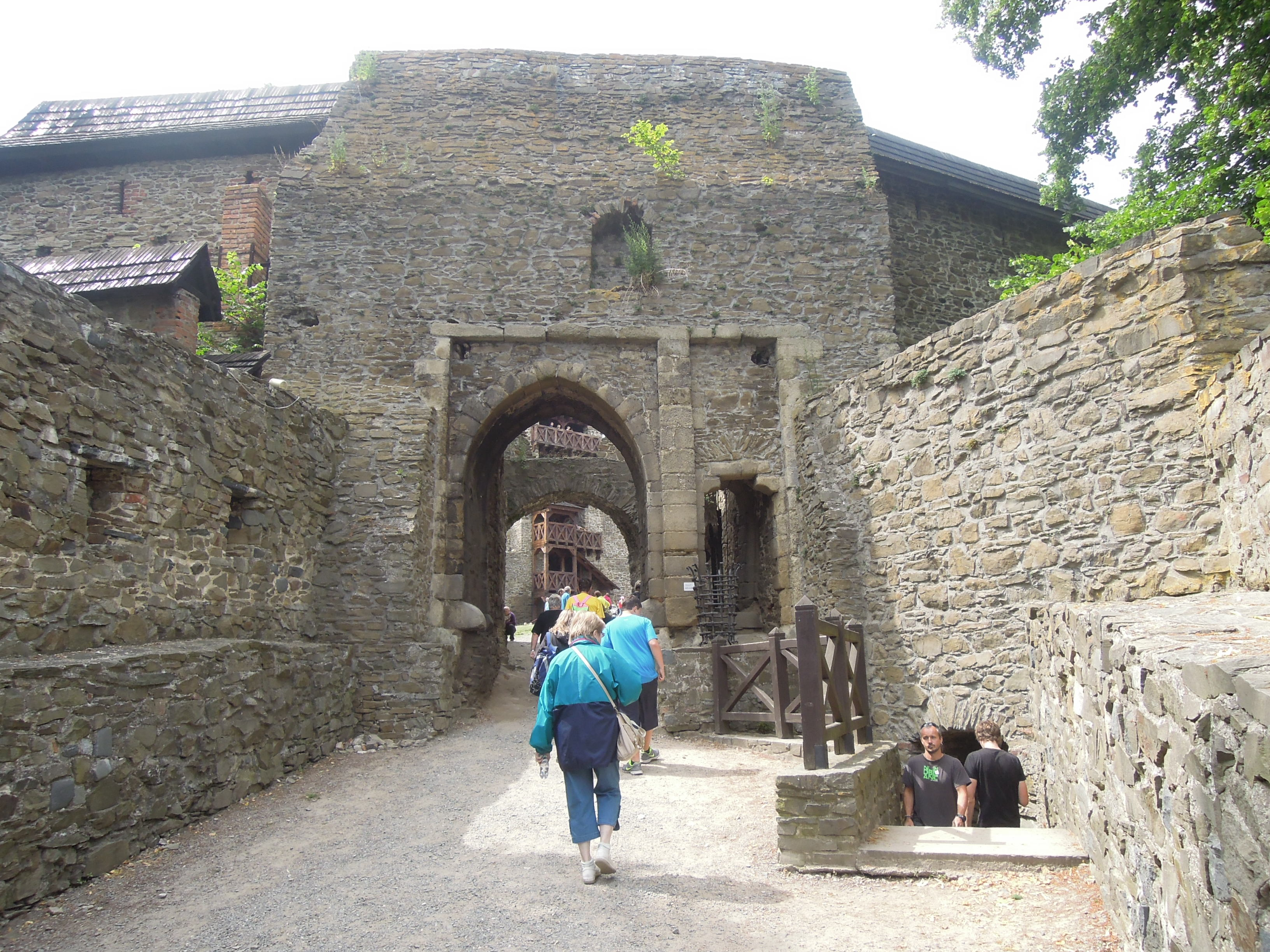 Castle Helfštýn near Týn nad Bečvou, Přerov District, Olomouc Region, Czech Republic